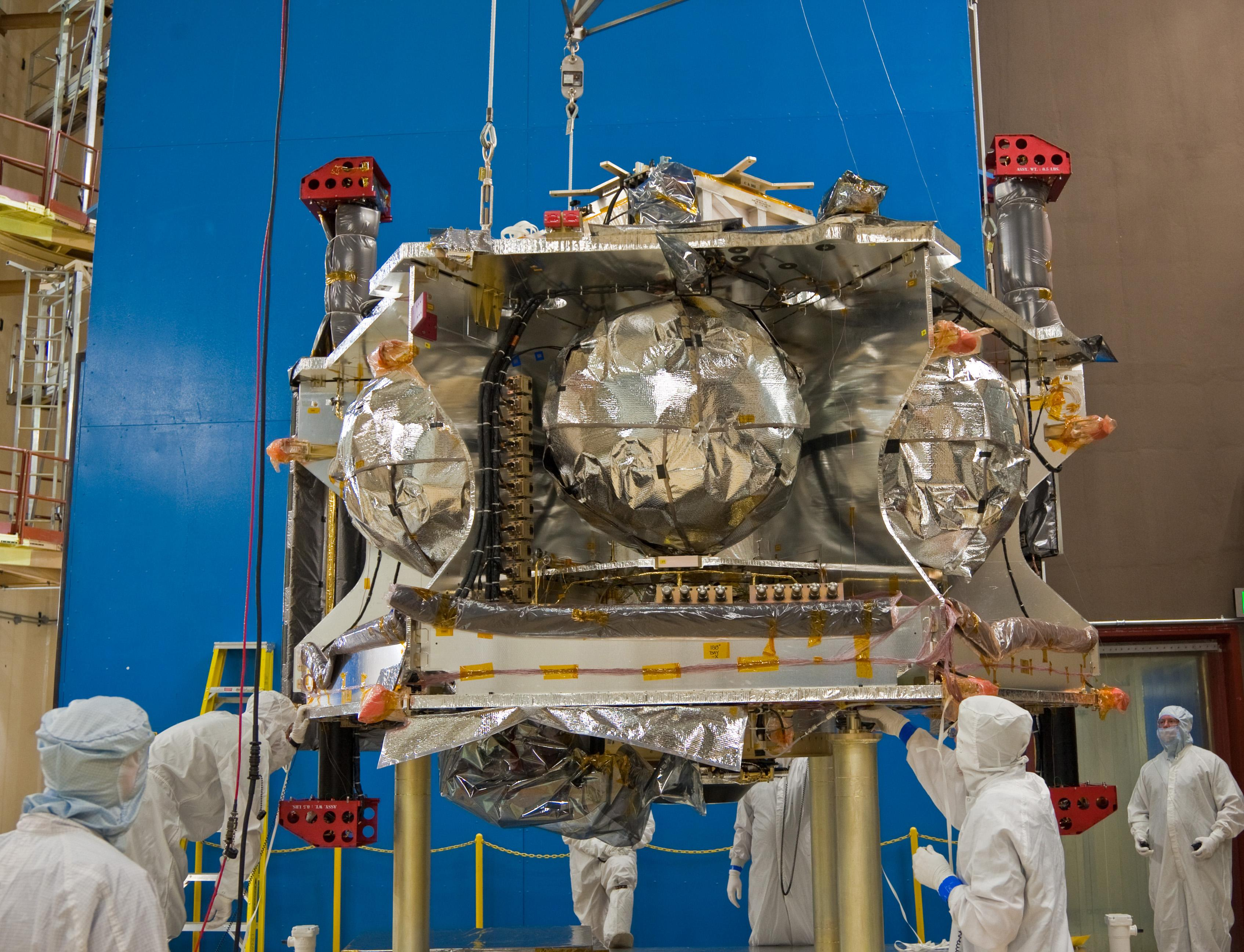 Technicians position NASA's Juno spacecraft on a dolly prior to the start of a round of acoustical testing. During acoustical testing a spacecraft is subjected to conditions that simulate the intense vibrations of launch and other less intense operations that take place while in flight. In this instance, the dolly provides the necessary ground clearance to perform a functional test of Juno's main engine cover. This image was taken on Sept. 30, 2010, in the Reverberant Acoustics Lab at Lockheed Martin Space Systems in Denver, during Juno's assembly process.